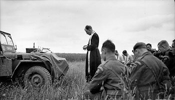 Collection Title: WAR OFFICE SECOND WORLD WAR OFFICIAL COLLECTION Collection No.: 4700-29 Description: THE BRITISH ARMY IN NORMANDY 1944 Men of 11th Armoured Division at a communion service in the field before the attack on Verson and Eterville, 10 July 1944.